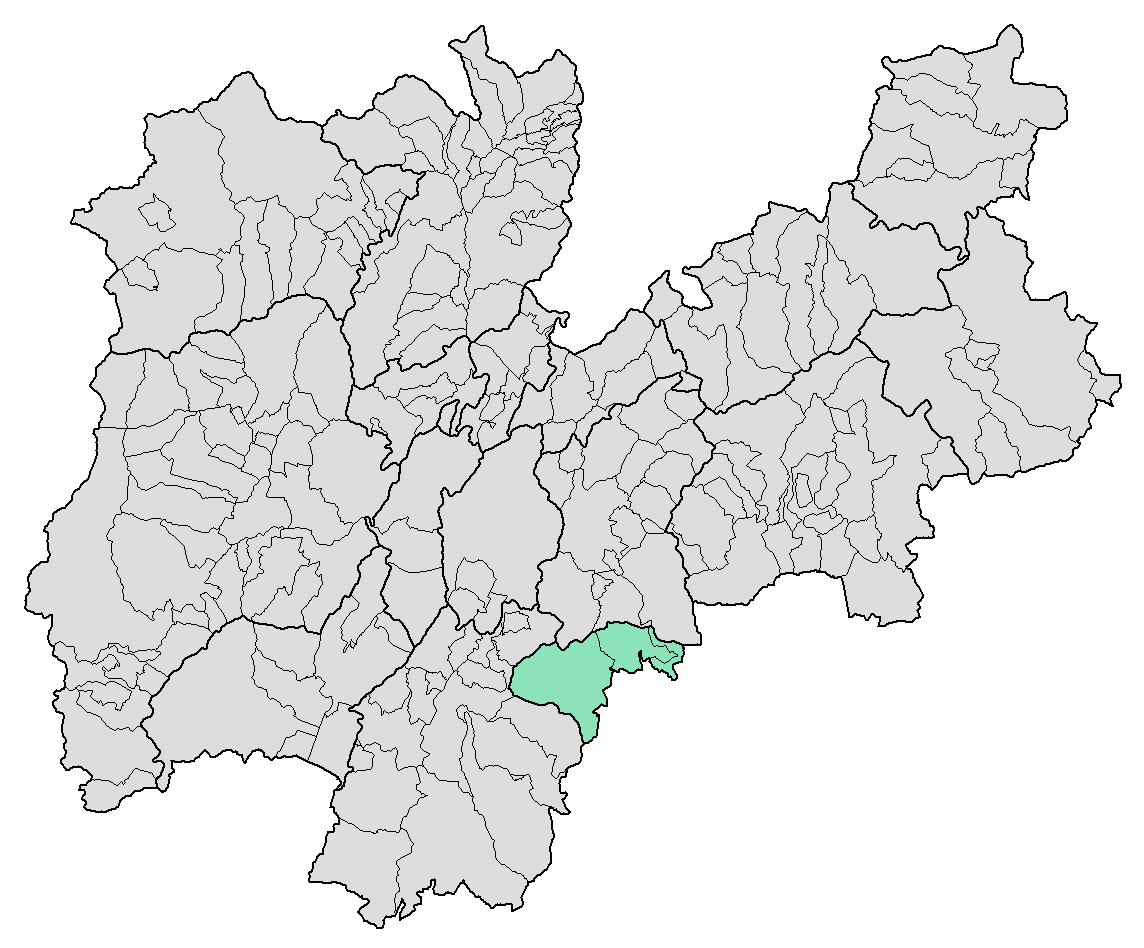 Location map of "Magnifica Comunità degli Altipiani cimbri" (12)